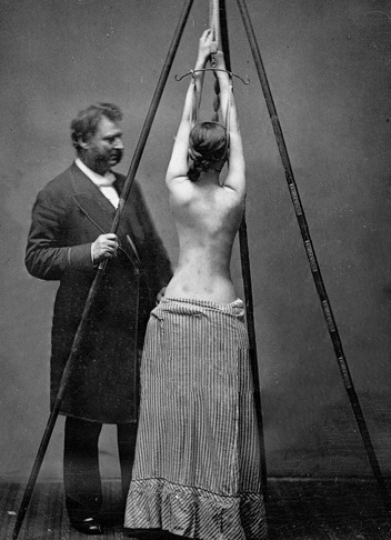 Lewis Albert Sayre (1820–1900) observes the change in the curvature of the spine as a patient self-suspends herself prior to being wrapped in a plaster of Paris bandage as a treatment for the curvature of the spine.